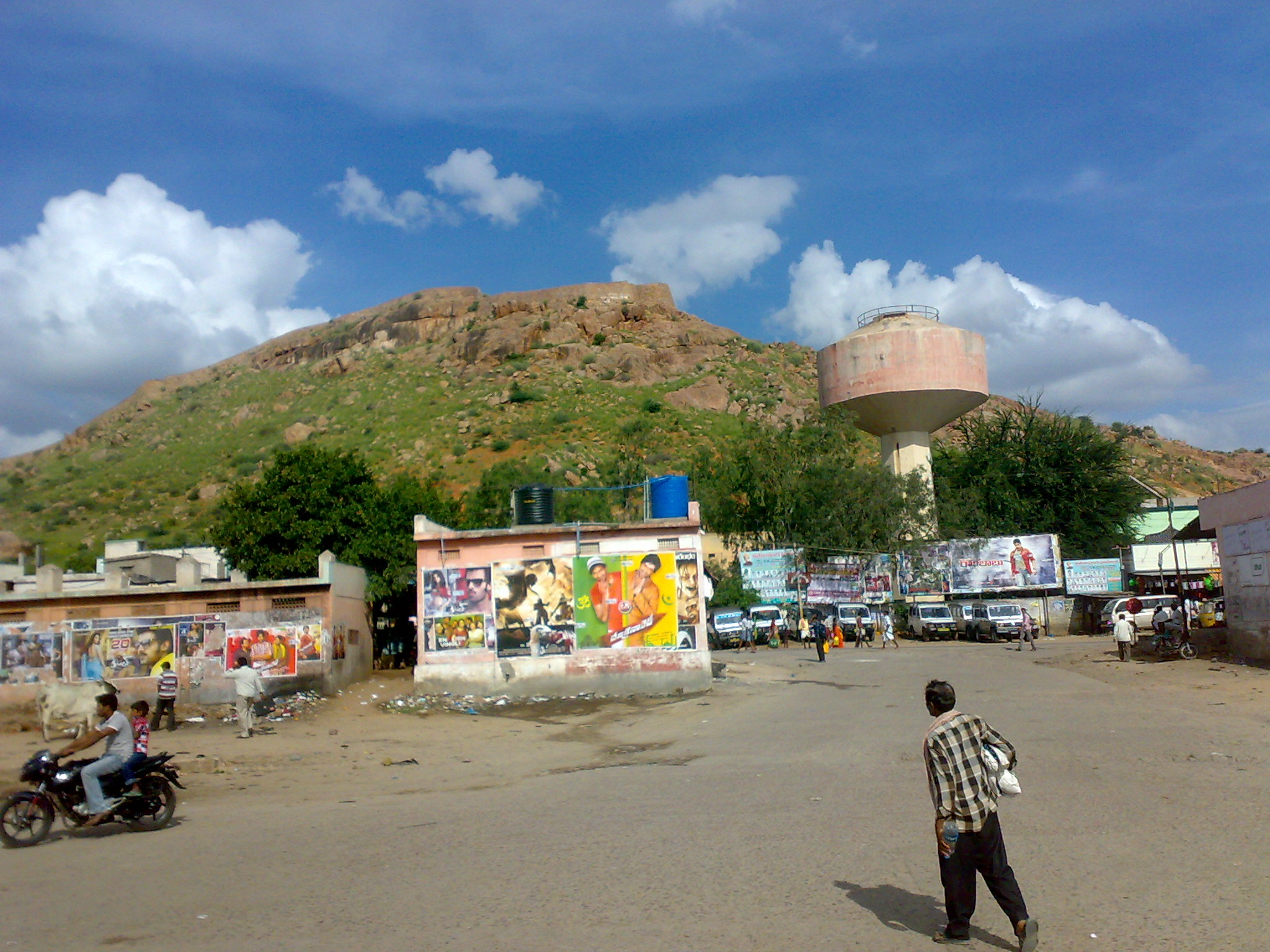 this is near fron gooty mandal, in anantapur district. this one of the visting place in anantapur